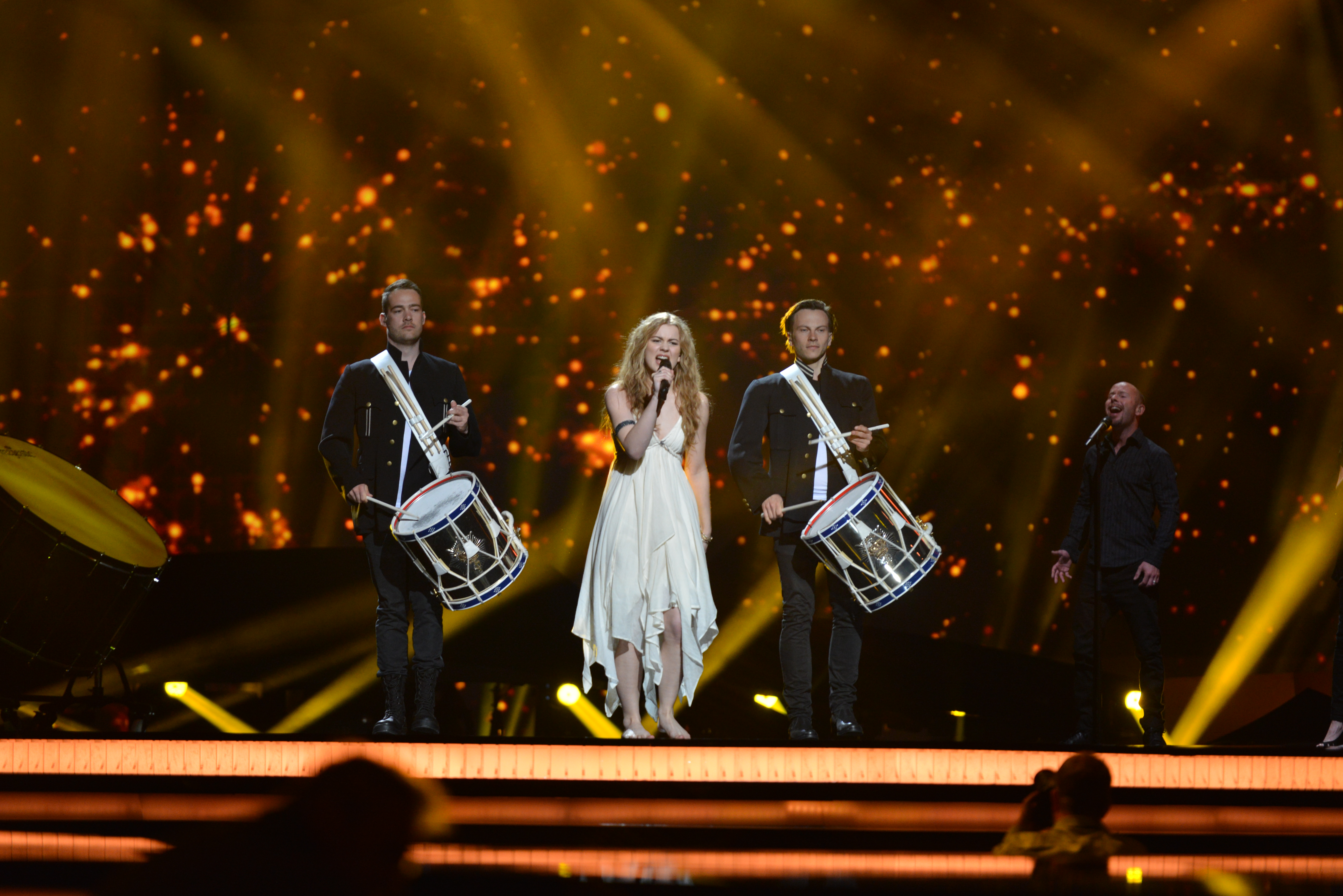 Emmelie de Forest representing Denmark with the song "Only Teardrops" during the first dress rehearsal of the first semi final of the Eurovision Song Contest 2013 in Malmö. (Help translate this text)